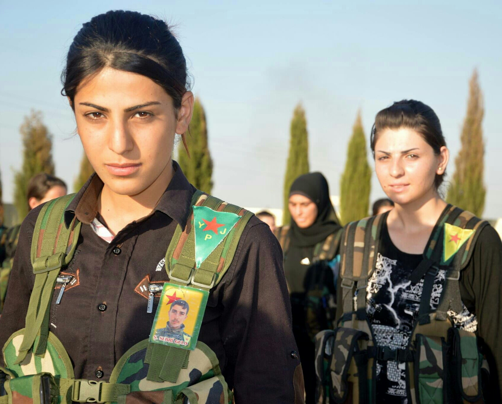 Fighters with the YPJ